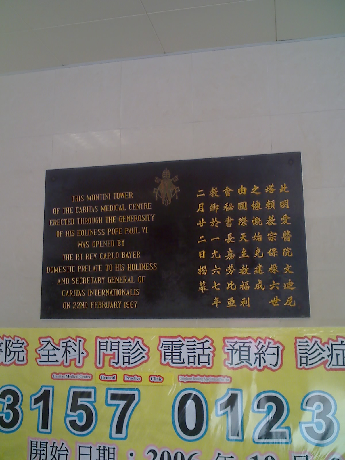 montini tower in HK Caritas Medical Centre